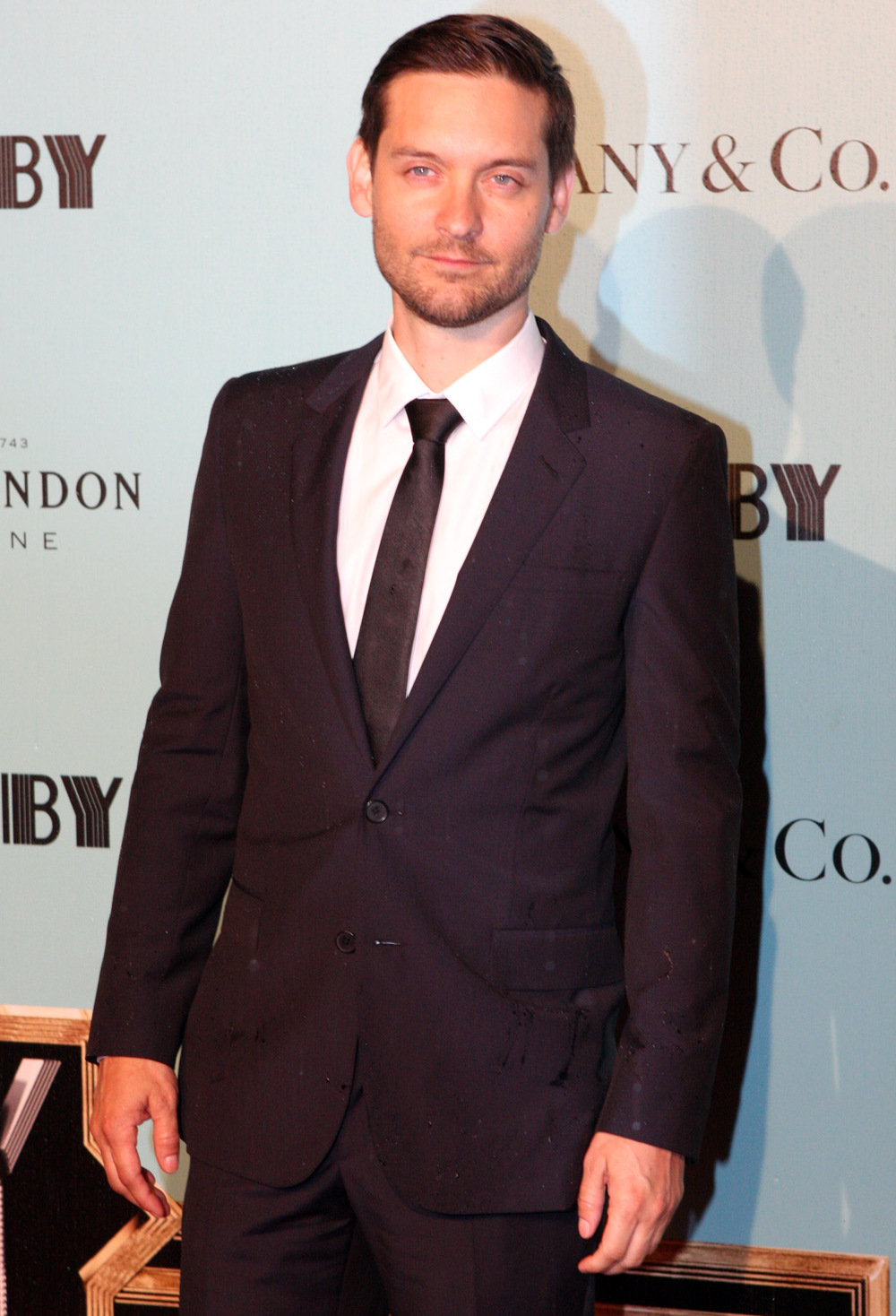 Tobey Maguire at the The Great Gatsby Premiere Sydney Australia 2013.